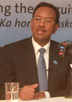 Prime Minister of Somalia Abdi Farah Shirdon (September 2013).